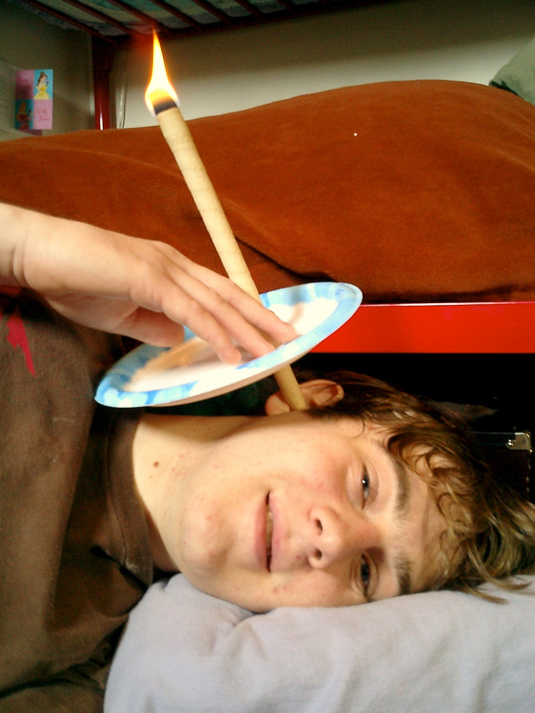 Self-applied ear candling